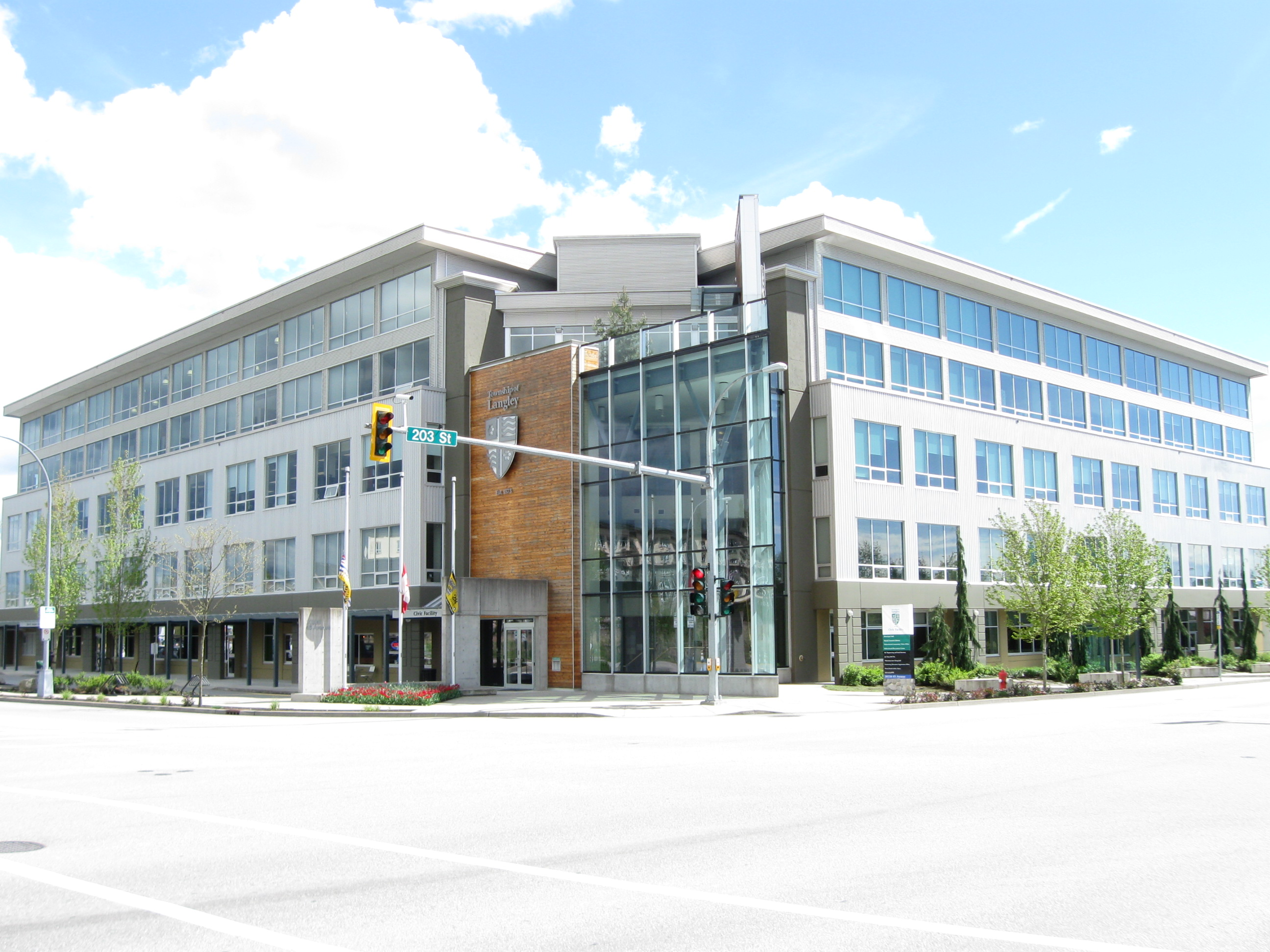 A southeast facing view of Langley Township City Hall at 20338 65 Avenue in Langley, BC, Canada in late April 2010.